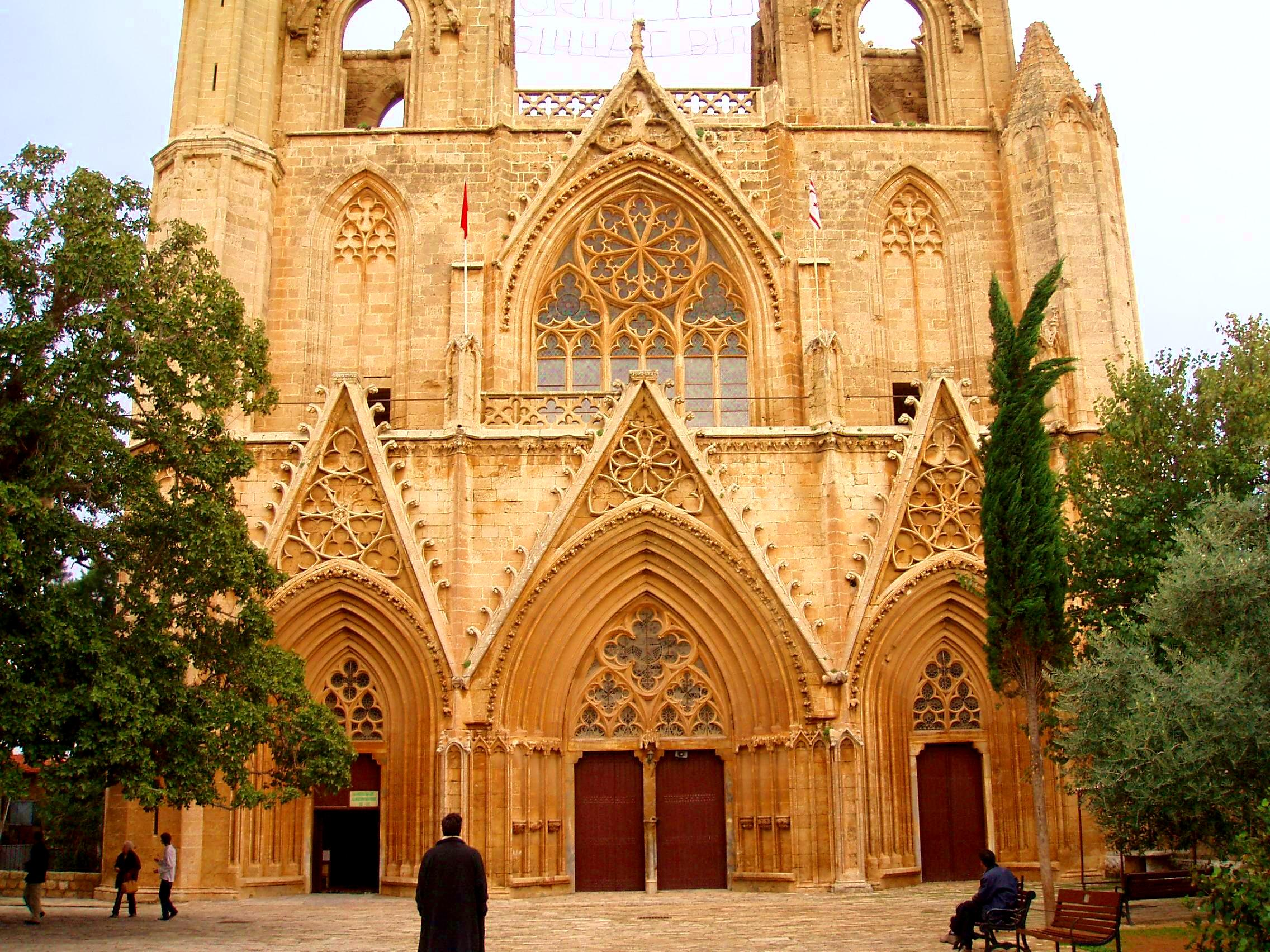 Lala Mustafa Paşa Mosque (St. Nicholas Cathedral), Famagusta, Turkish Republic of Northern Cyprus. Author: Atak Kara